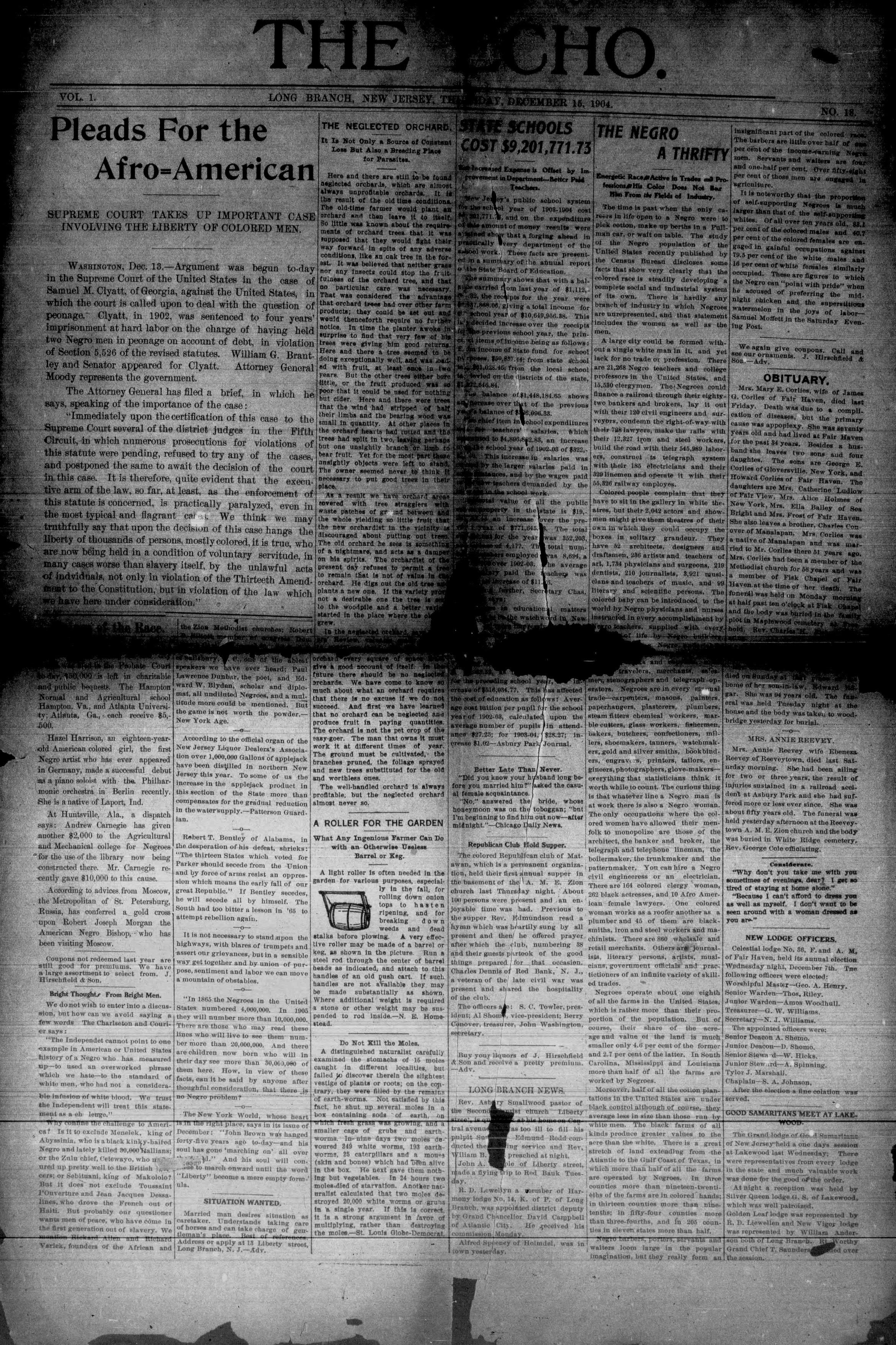 Front page of an early issue of The Echo of Long Branch, New Jersey. Top headline announces the Supreme Court argument in Clyatt v. United States, an important peonage case.